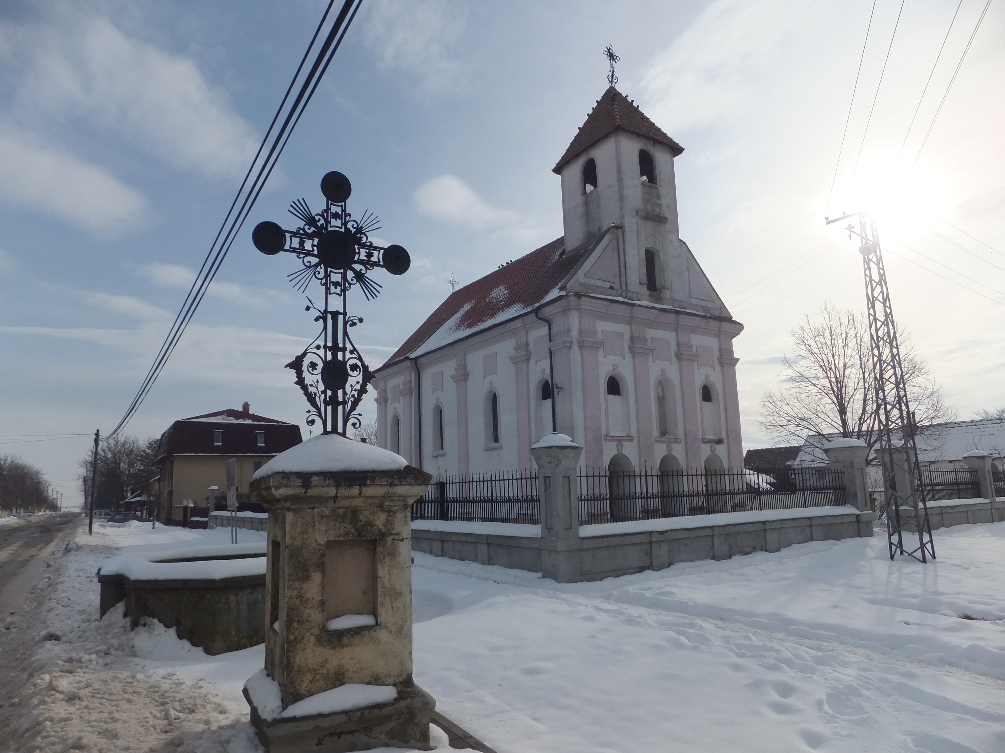 A cross monument and Church of Saint Nicholas in Prhovo